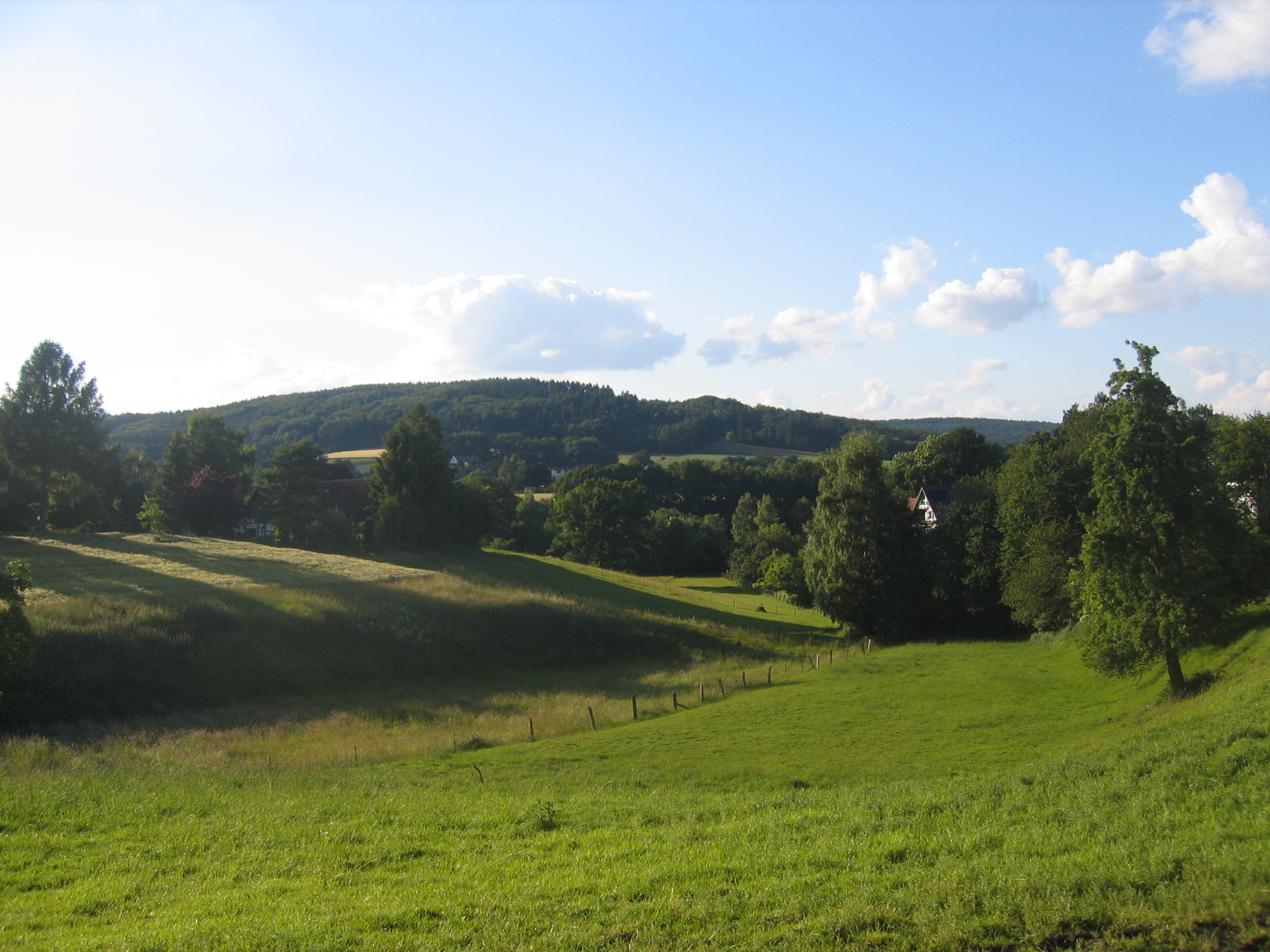 Maschberg Mountain in Rödinghausen, District of Herford, North Rhine-Westphalia, Germany.